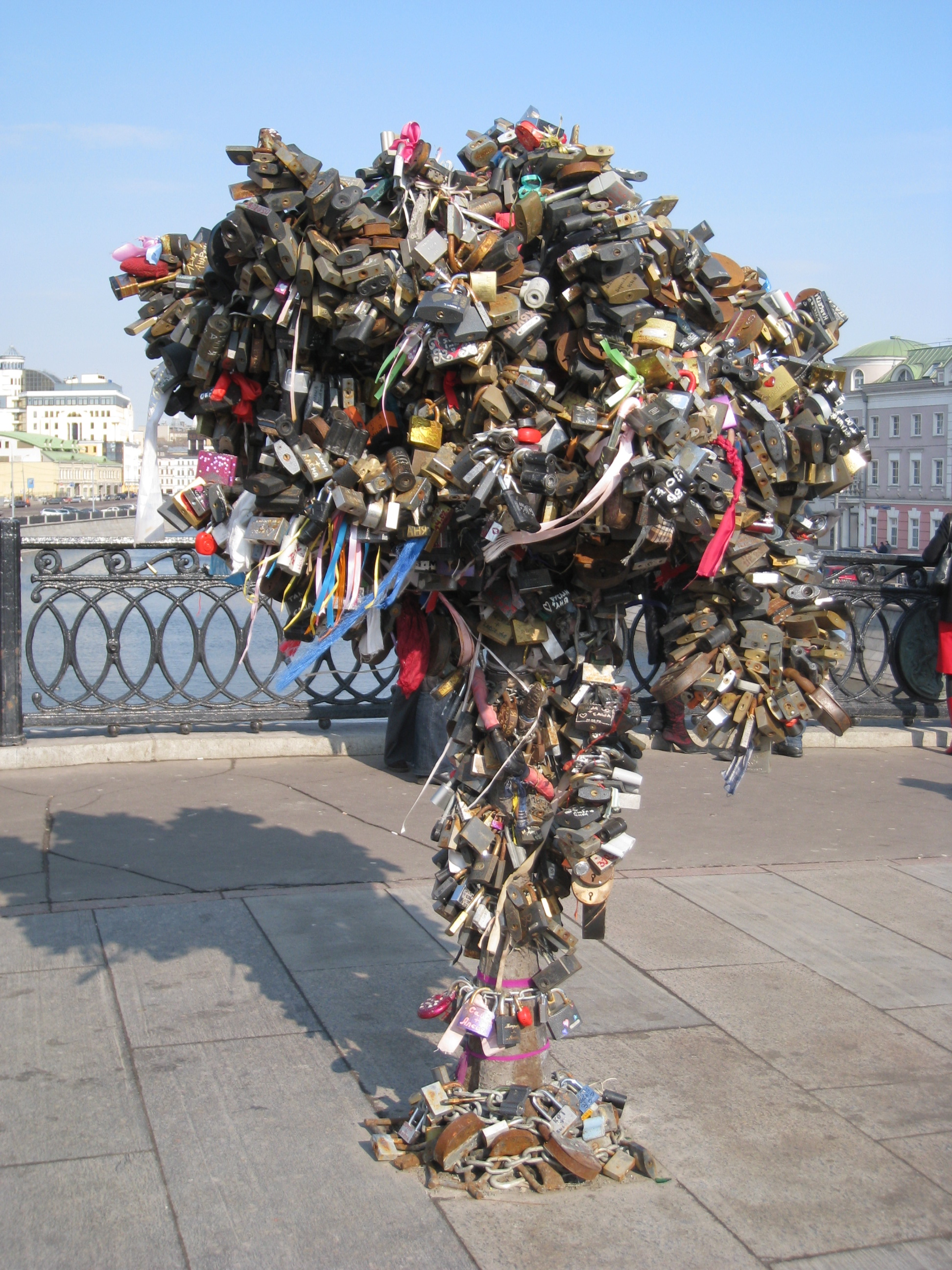 anyone know what this is all about?